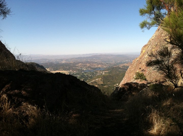 The view from inside God's Seat, looking northward at Lake Sherwood.